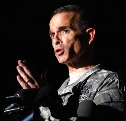 Army Col. Lawrence Morris, chief prosecutor for the Office of Military Commissions, addresses civilian media during a press conference following the arraignment of Khalid Sheikh Mohammed and four other alleged Sept. 11 co-conspirators in McCalla Hangar here June 5.